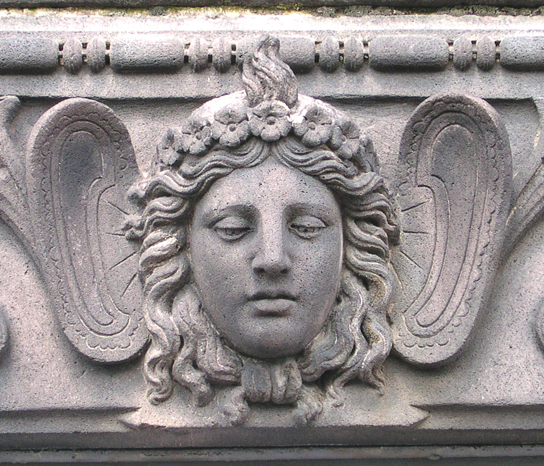 Carmes cemetery (Clermont-Ferrand) Photographie prise par/picture taken by Romary 08 juillet/July 2006